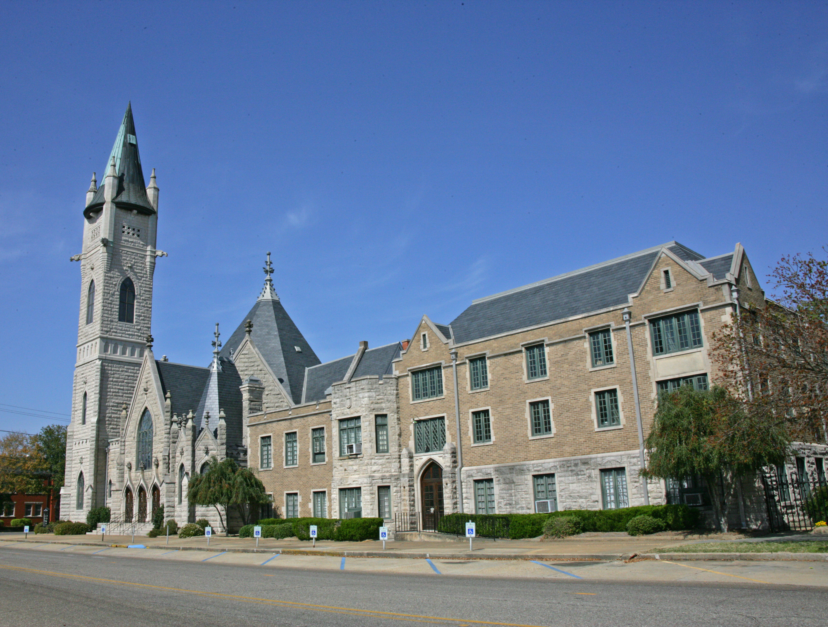 First Baptist Church of Selma in Selma, Alabama. Completed in 1904.